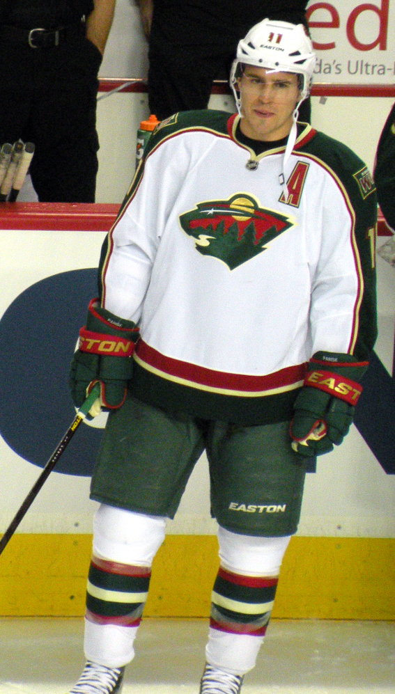 Minnesota Wild forward Zach Parise prior to a National Hockey League game against the Calgary Flames.